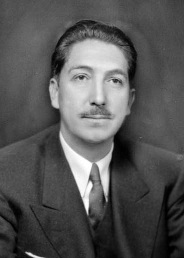 Miguel Alemán Valdés, head-and-shoulders portrait, facing front